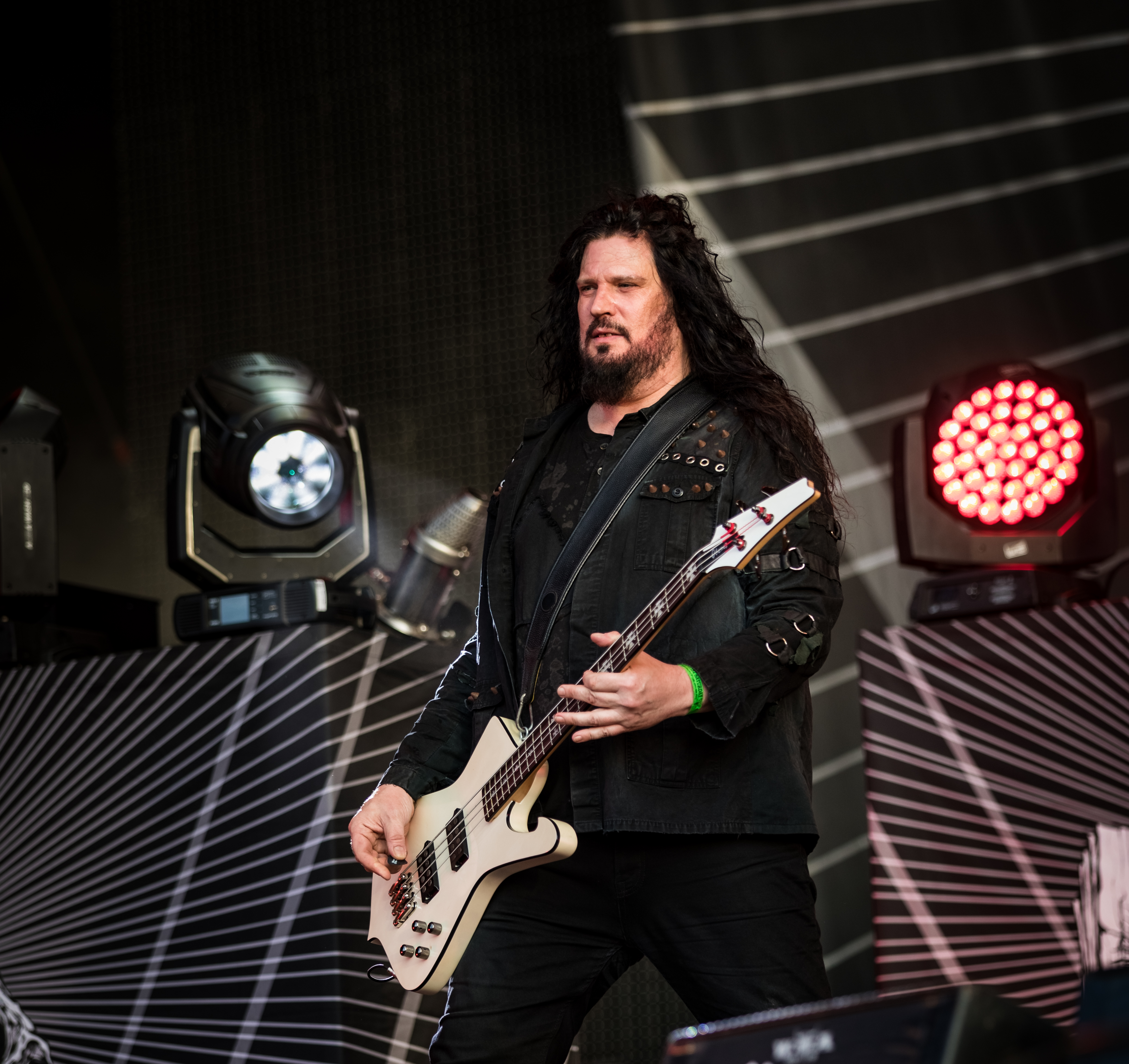 Arch Enemy - Wacken Open Air 2018